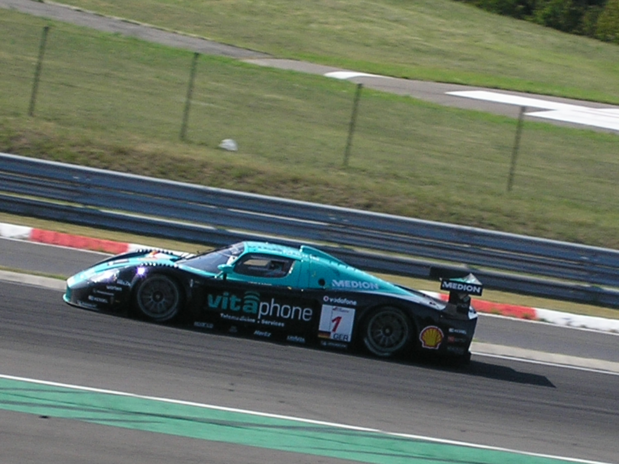 2009 FIA GT Budapest City